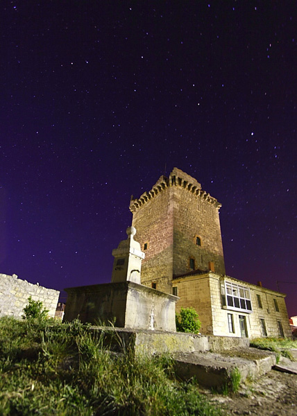 Fuente y Torre de Olmos de la Picaza